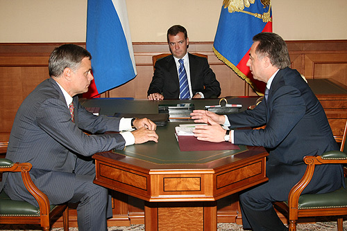 BOCHAROV RUCHEI, SOCHI. With Minister of Sport, Tourism and Youth Policy Vitaly Mutko (right) and Presidential Aide and Secretary of the State Council Alexander Abramov.